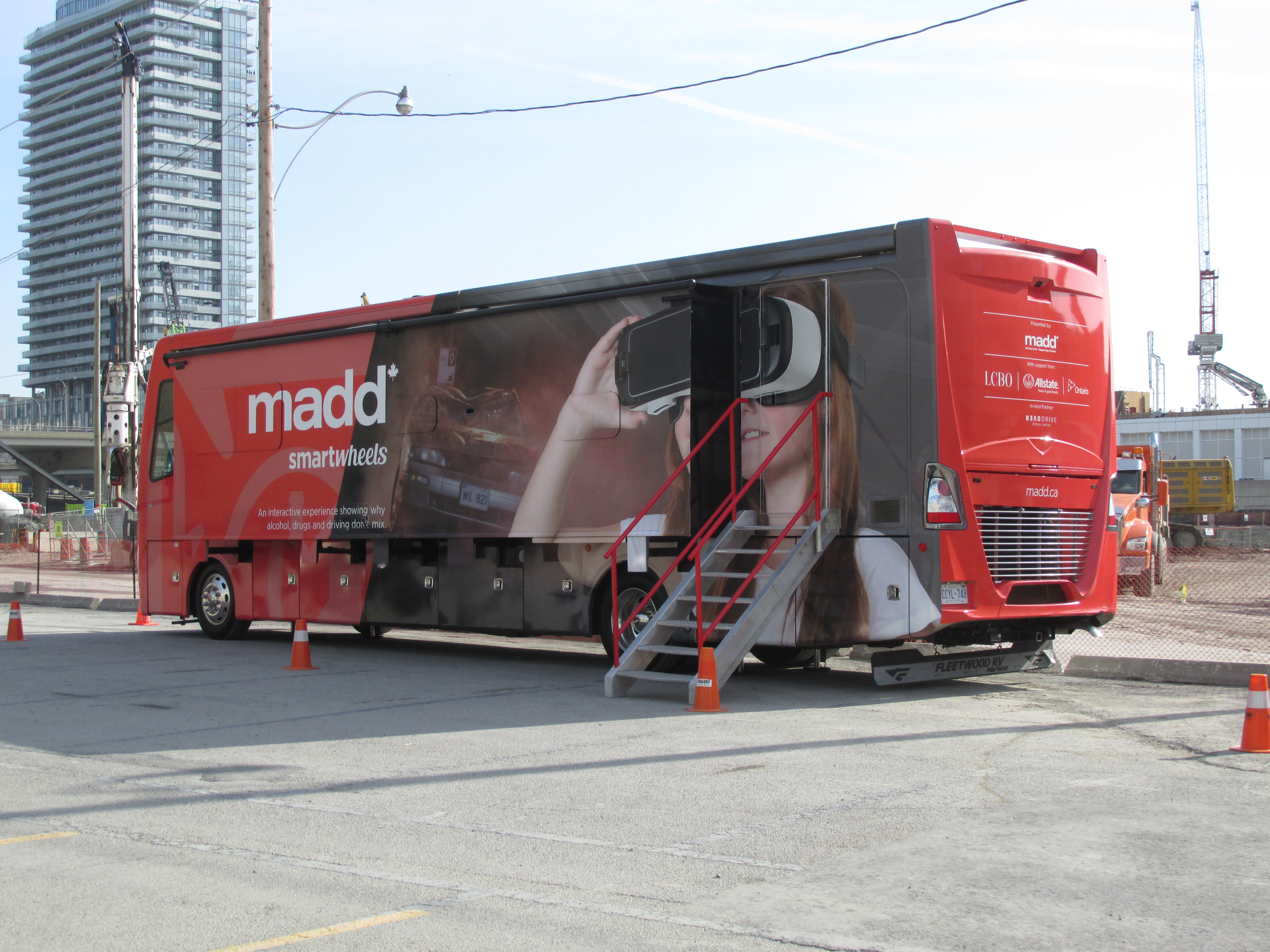 A Mothers Against Drunk Driving (MADD) SmartWheels bus. Ontario license plate CCYL 748. "An interactive experience showing why alcohol, drugs and driving don't mix".